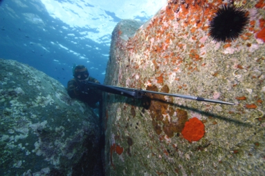 Spearfisher waiting